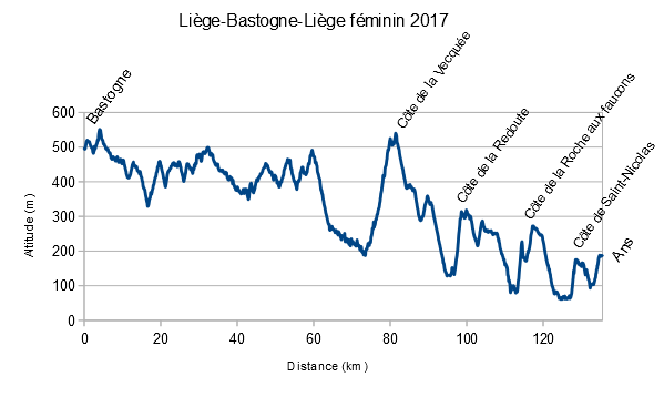 Profil of Liege-Bastogne-Liege femmes 2017